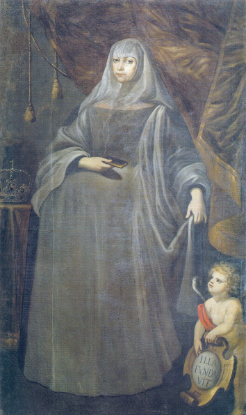 Portrait of Maria Francisca of Savoy (1646-1683) in the MNAA